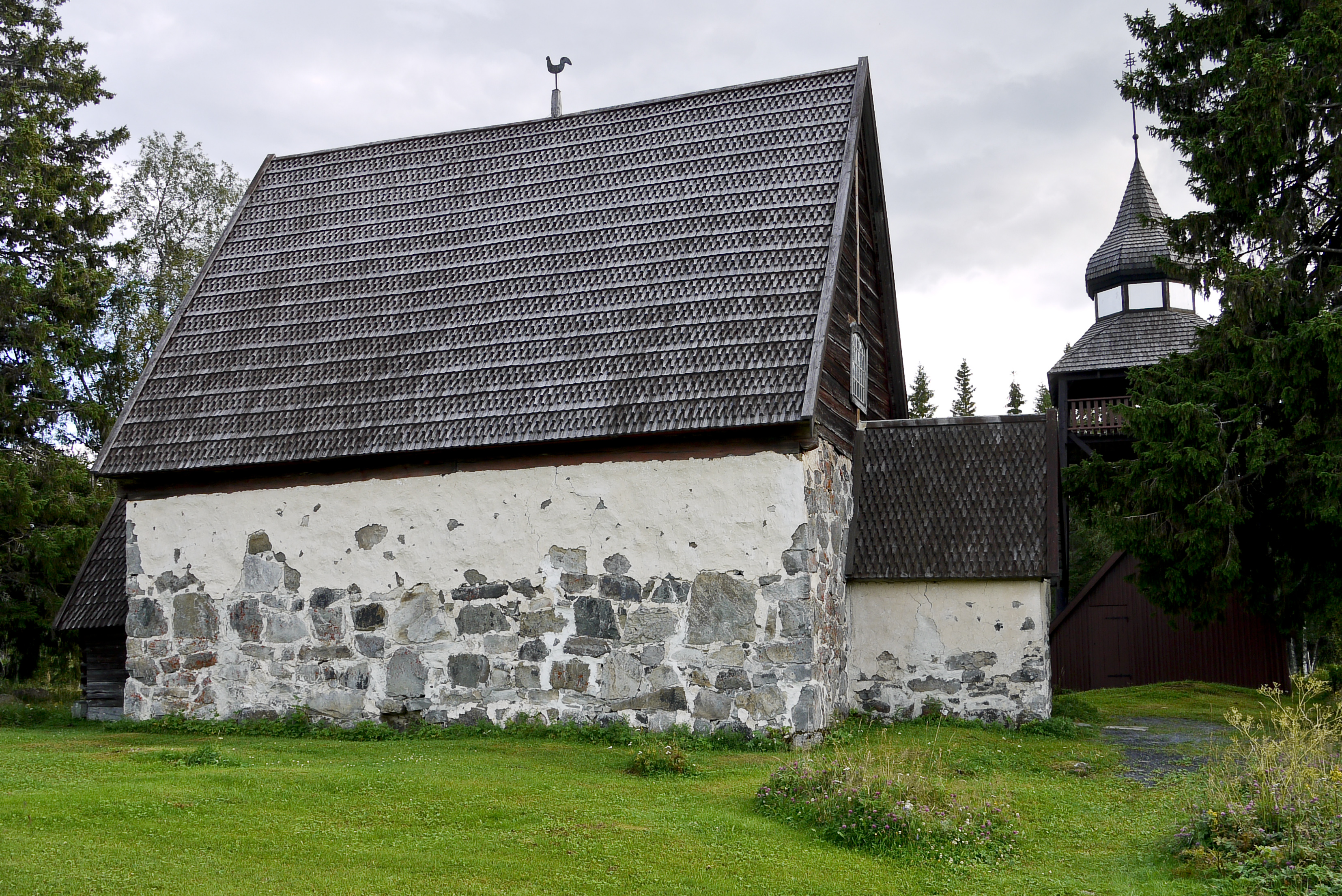 Kyrkås gamla kyrka/Kyrkås old church. Diocese of Härnösand, Östersund, Sweden.